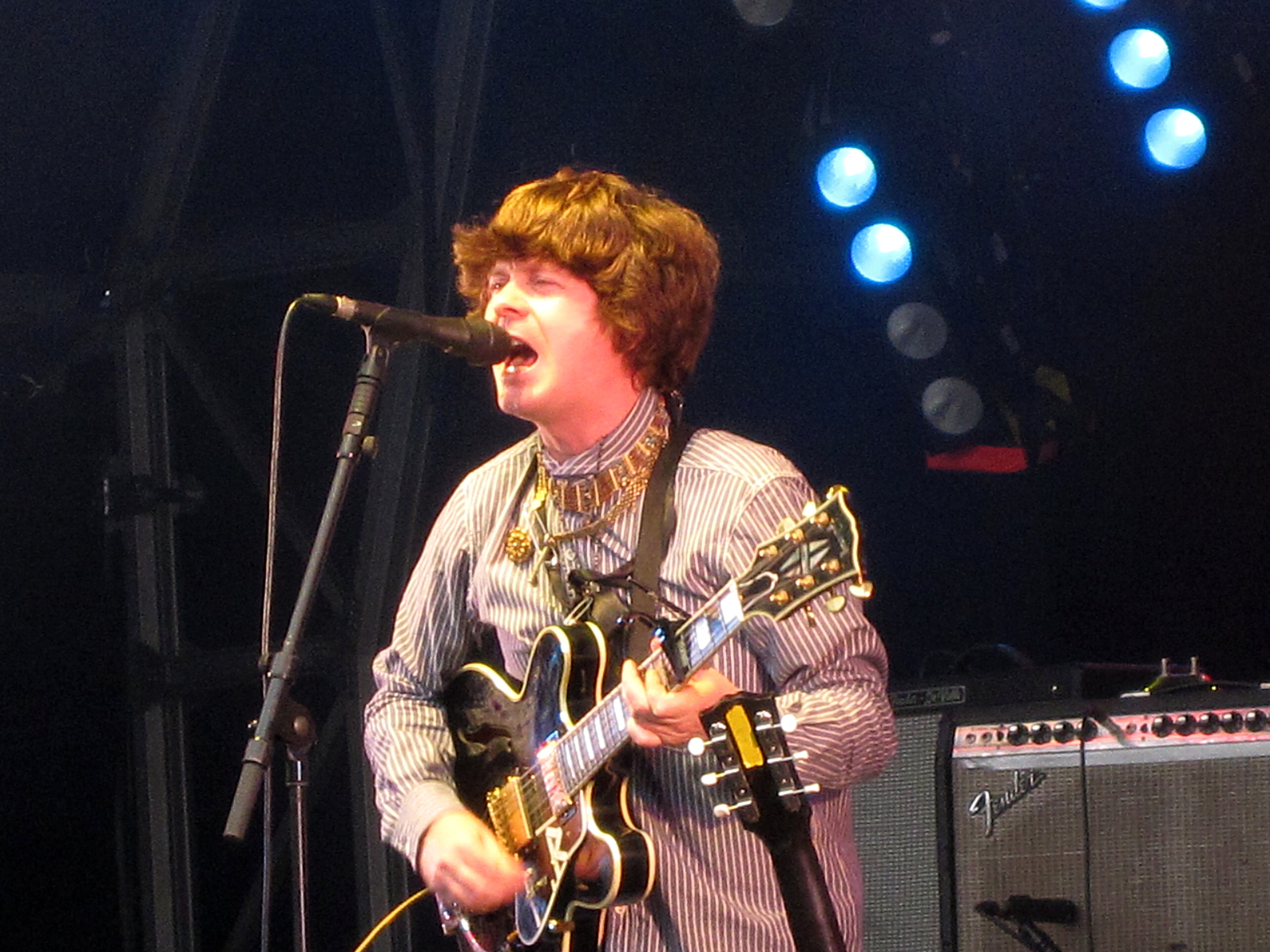 Fionn Regan performing on the main stage of the Summer Sundae festival, Leicester, August 2010